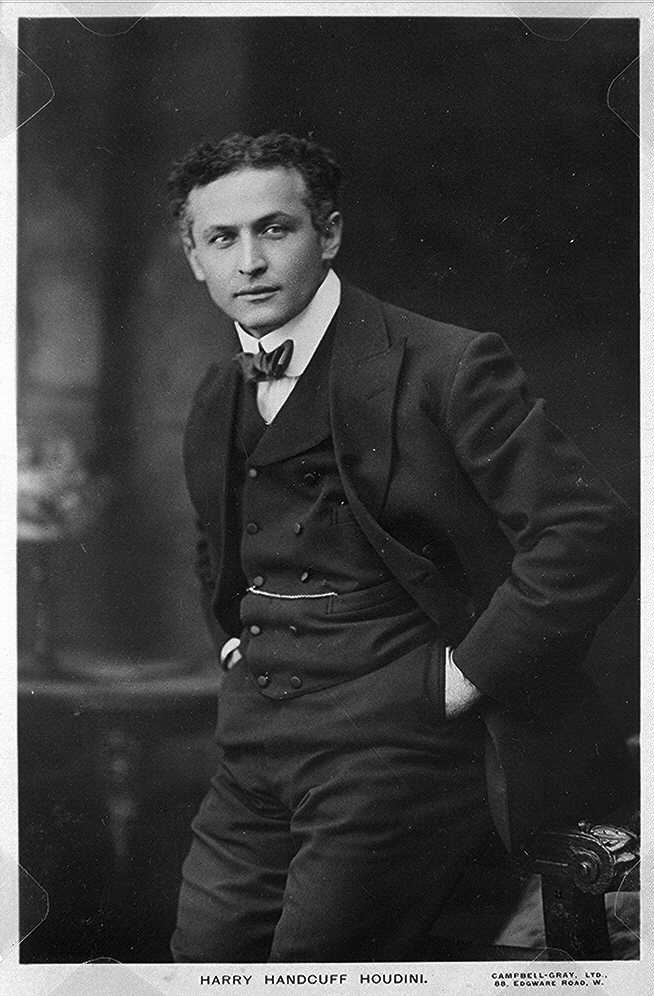 Title: Harry Handcuff Houdini Abstract/medium: 1 photographic print.